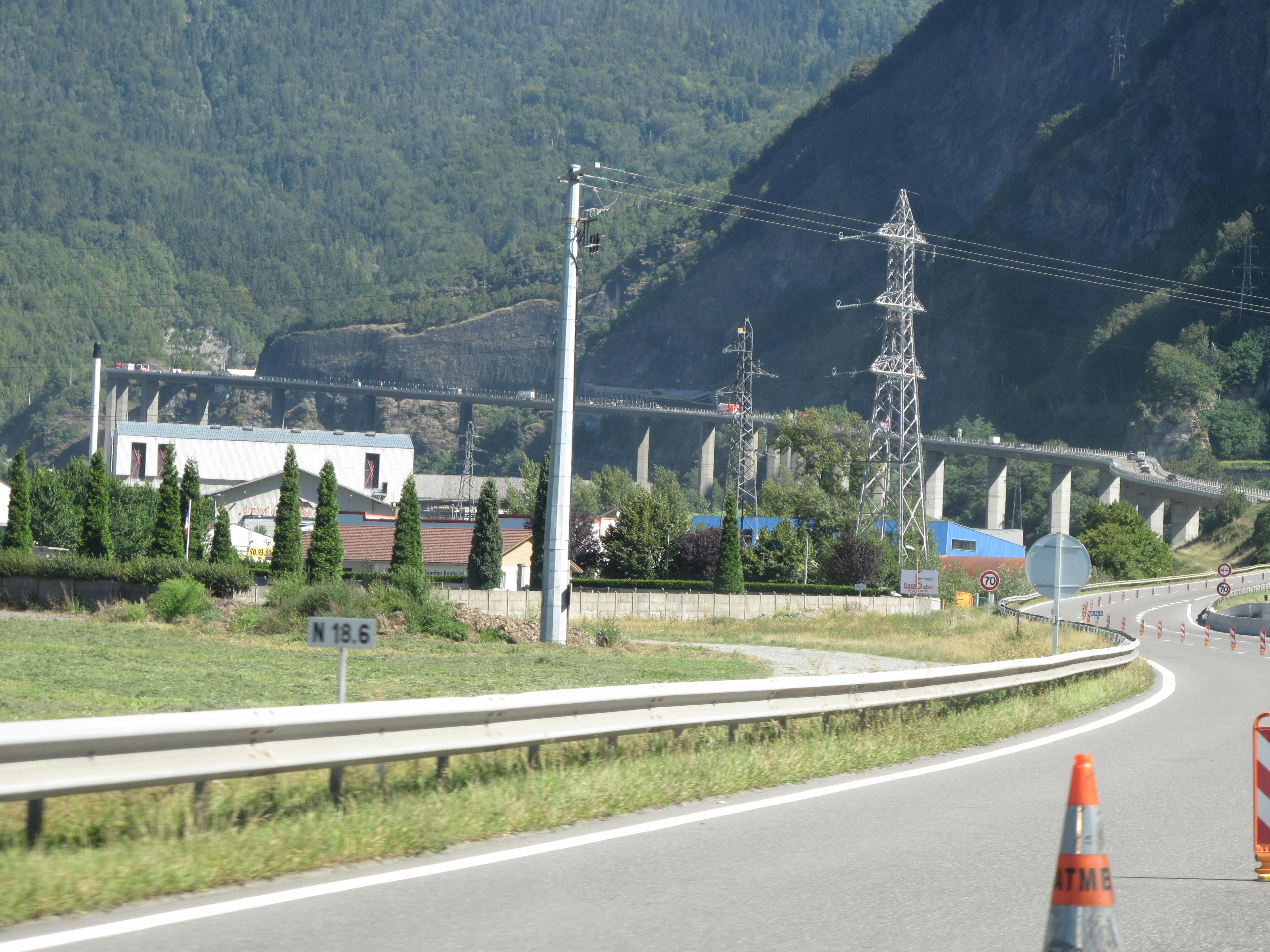 The viaduc des Egratz on road N205 near Chamonix (Haute-Savoie, France).